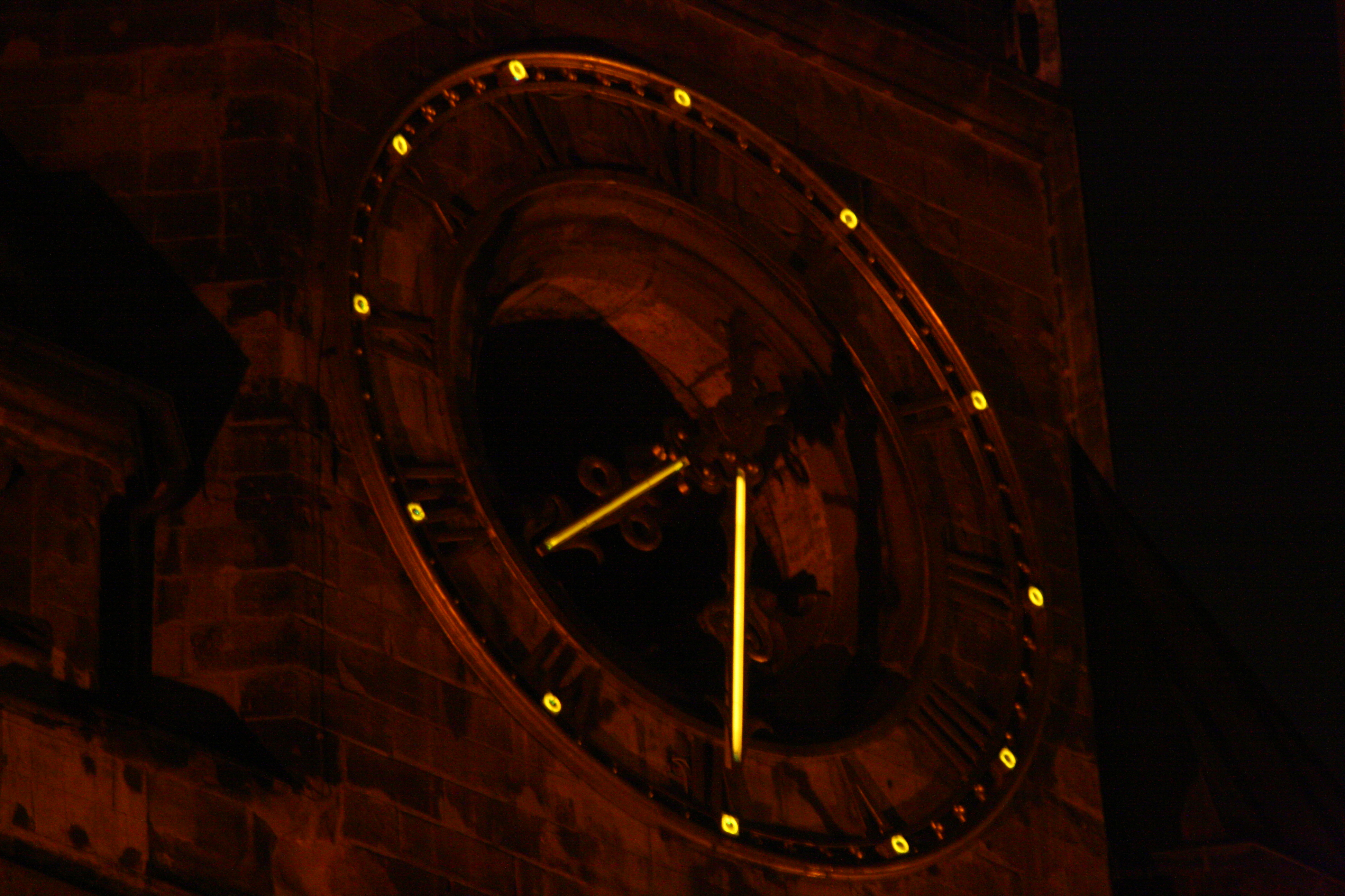 lighted clock of the Kaiser-Wilhelm-Gedächtniskirche, Berlin, Germany